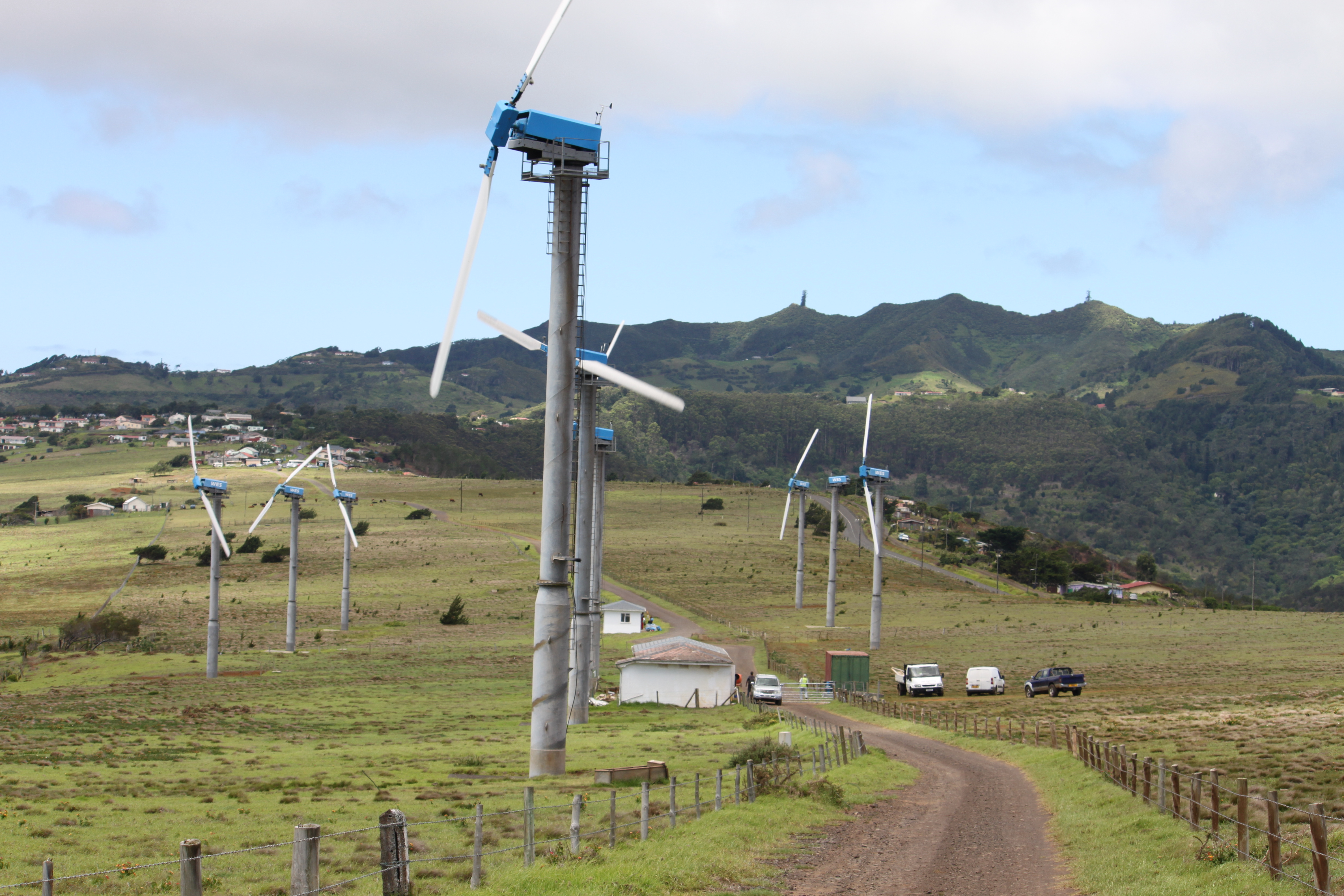 nine blue WES wind turbines on either side of dirt road cutting through a grassy field. In the distance houses in the community of Longwood can be seen, and the rising peaks of Cuckold's Point, Diana's Peak and Mount Actaeon.